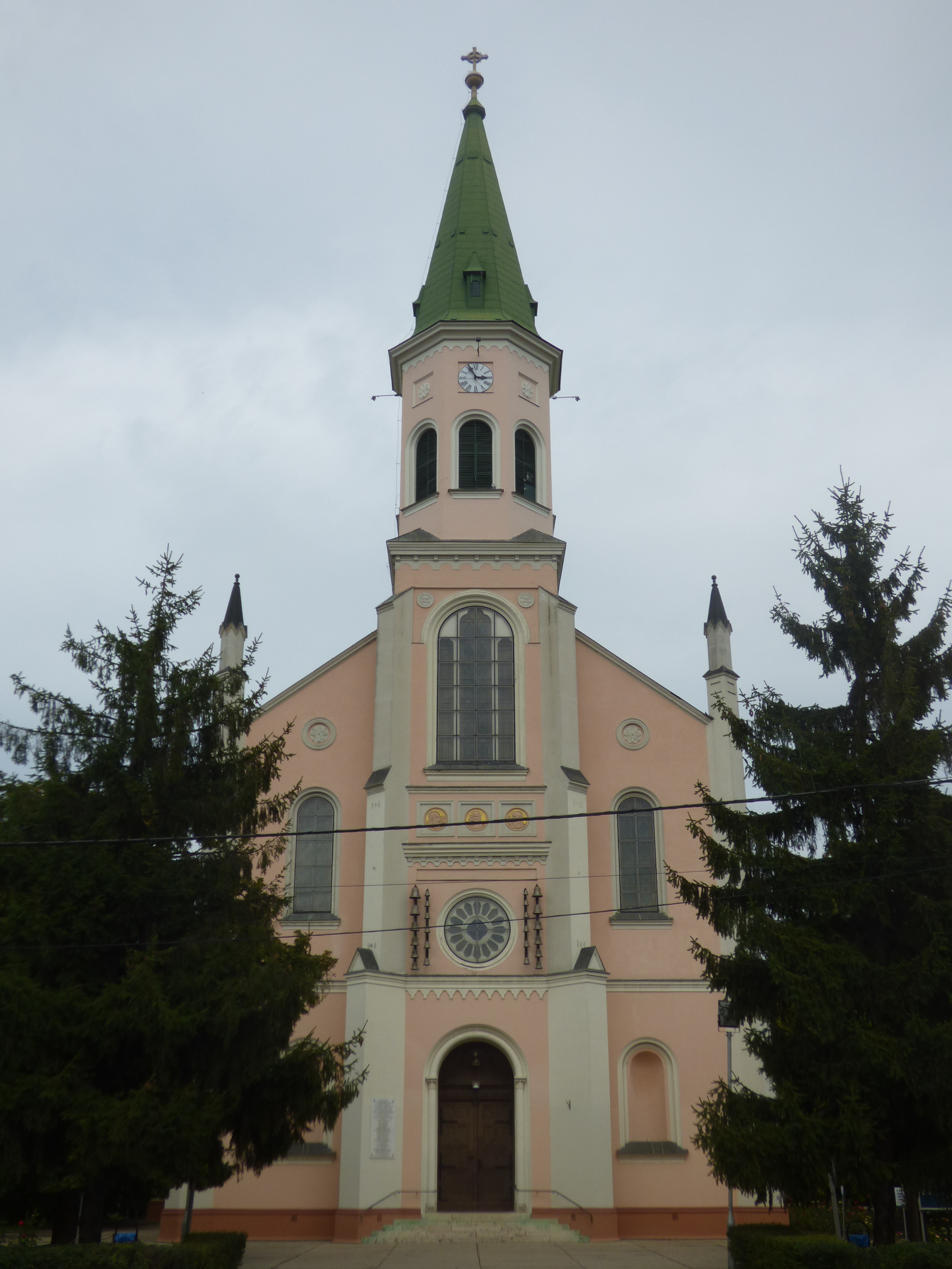 Lajosmizse temploma